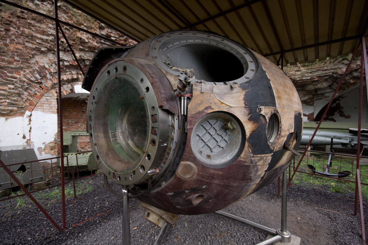 Soyuz 30 descent module, as used by Mirosław Hermaszewski and Pyotr Klimuk in their 1978 flight to Salyut 6. Space hardware!